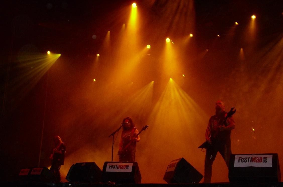 Live Festimad 2007 , 8 June 2007